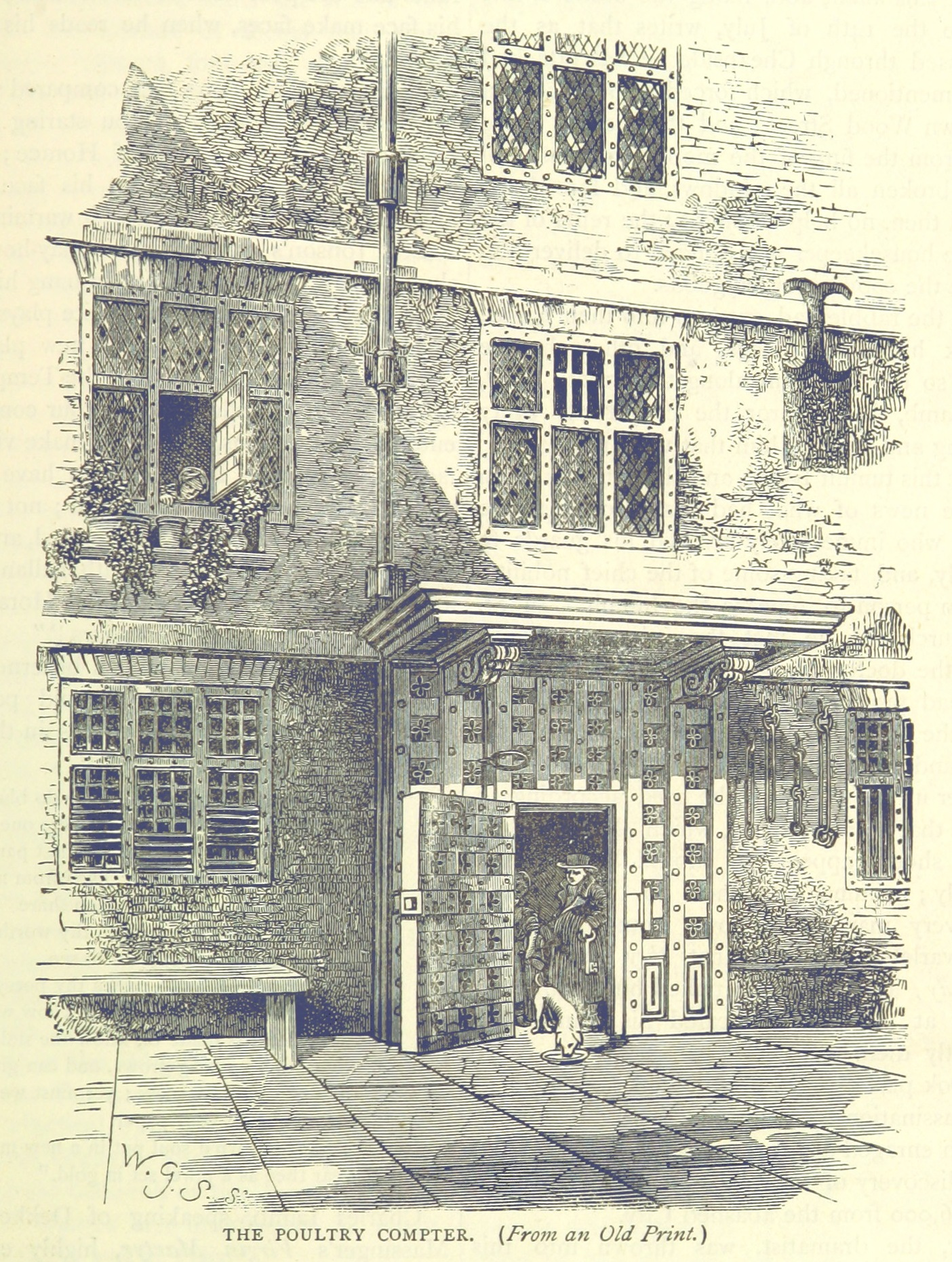 The Poultry Compter, a small compter (prison) in the City of London, which existed from medieval times until 1815.